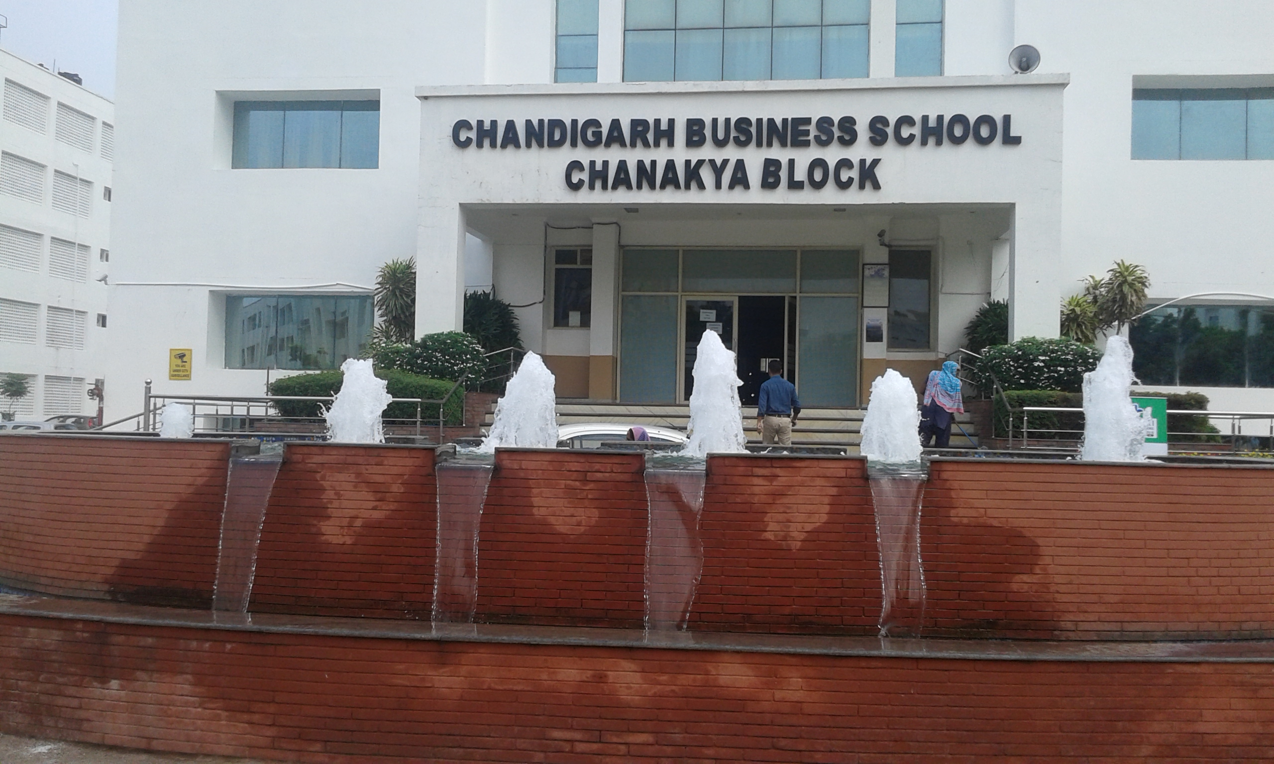 Chandigarh Group of Colleges Chanakya Block